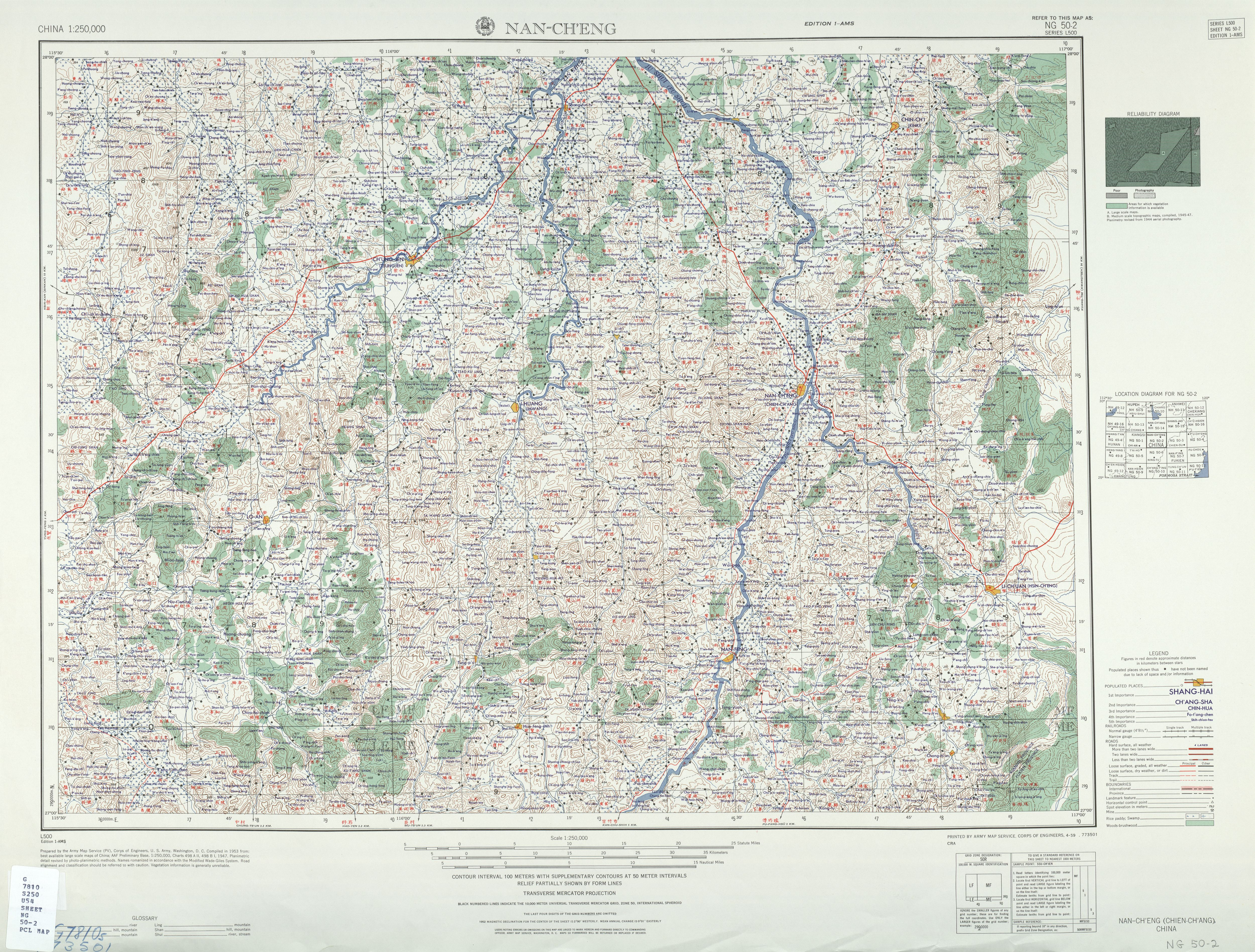 China AMS Topographic Maps